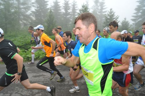 Start 2011